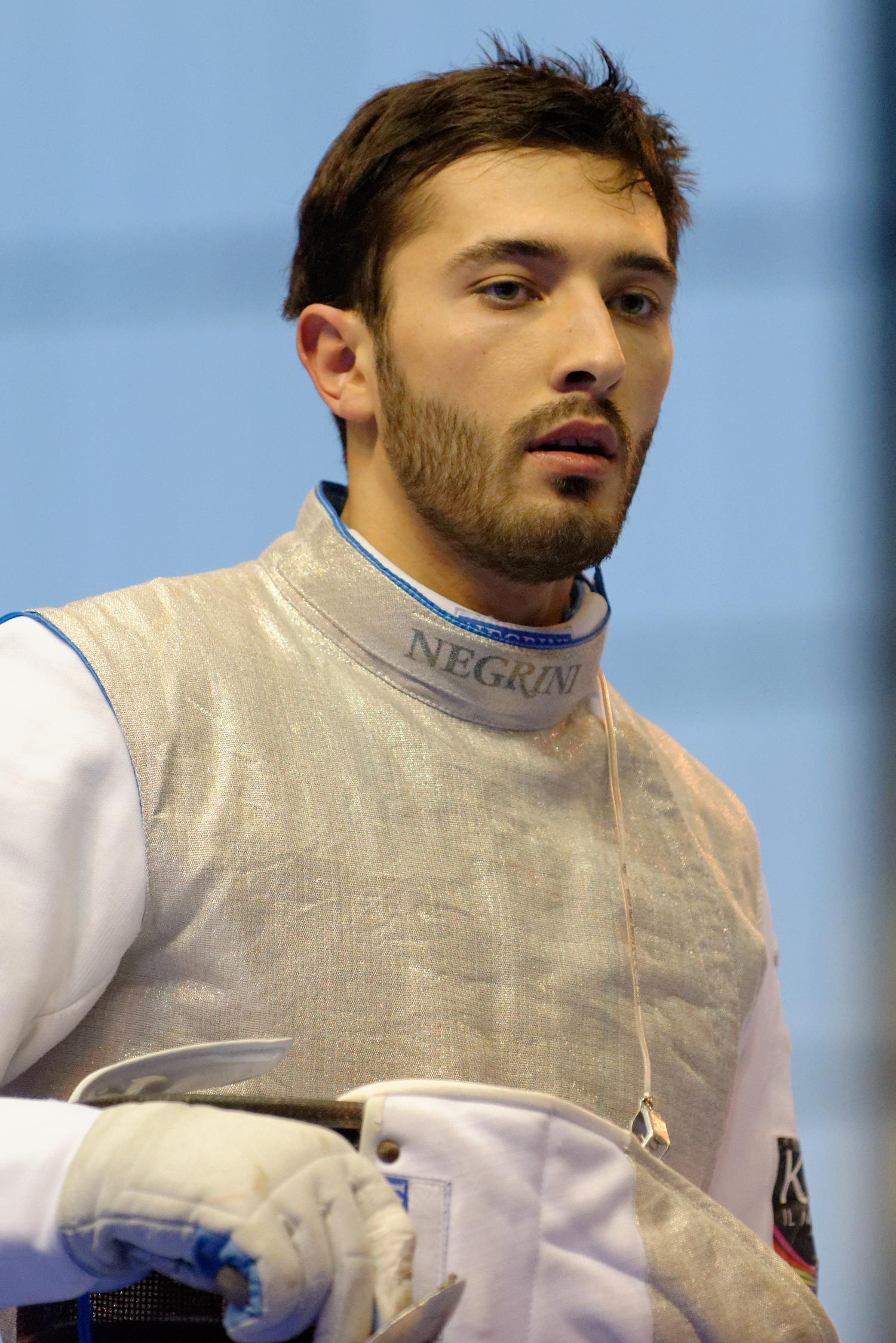 Giorgio Avola during his quarter-final of the Challenge international de Paris 2013 against Andrea Cassarà.